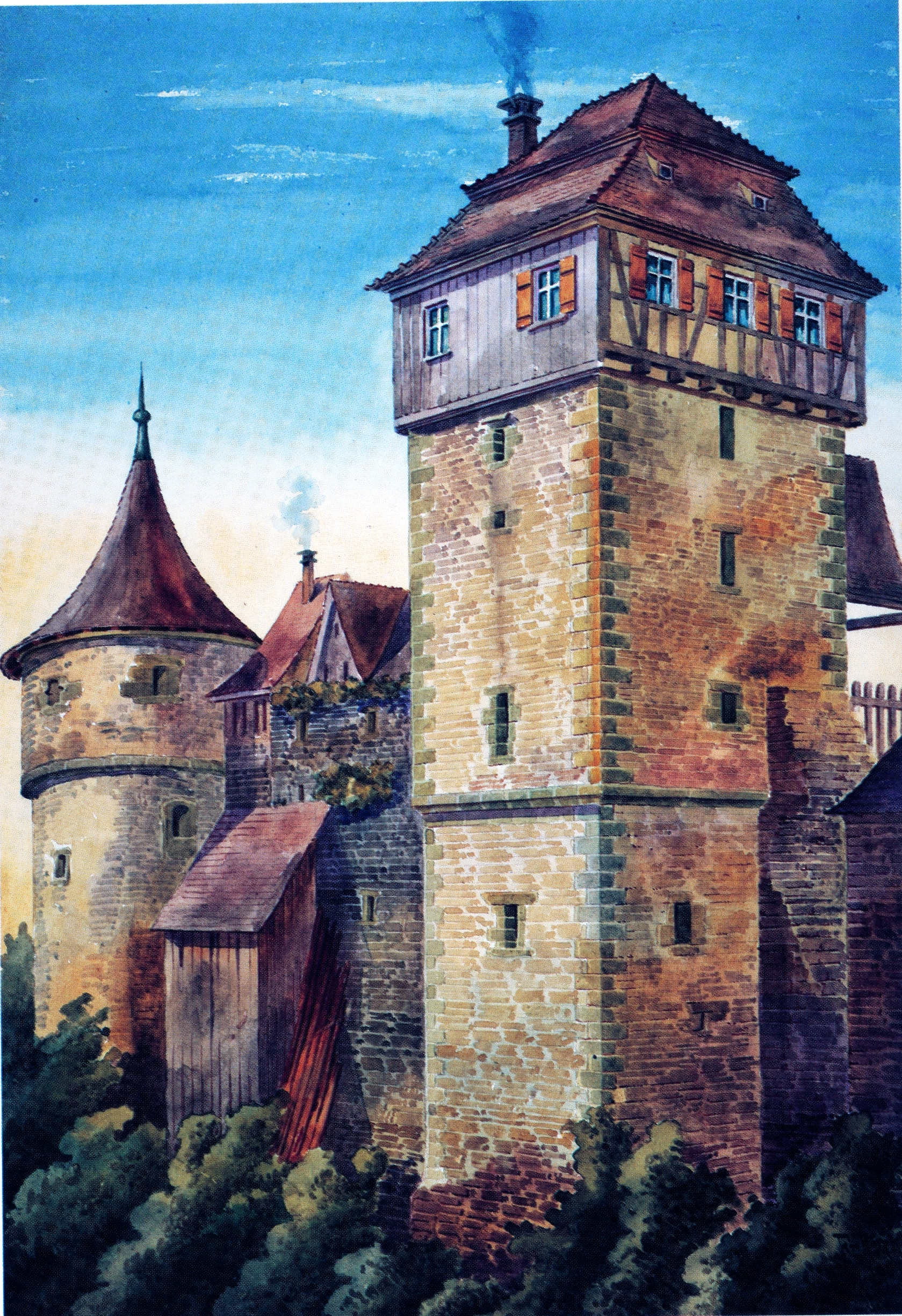 siehe oben